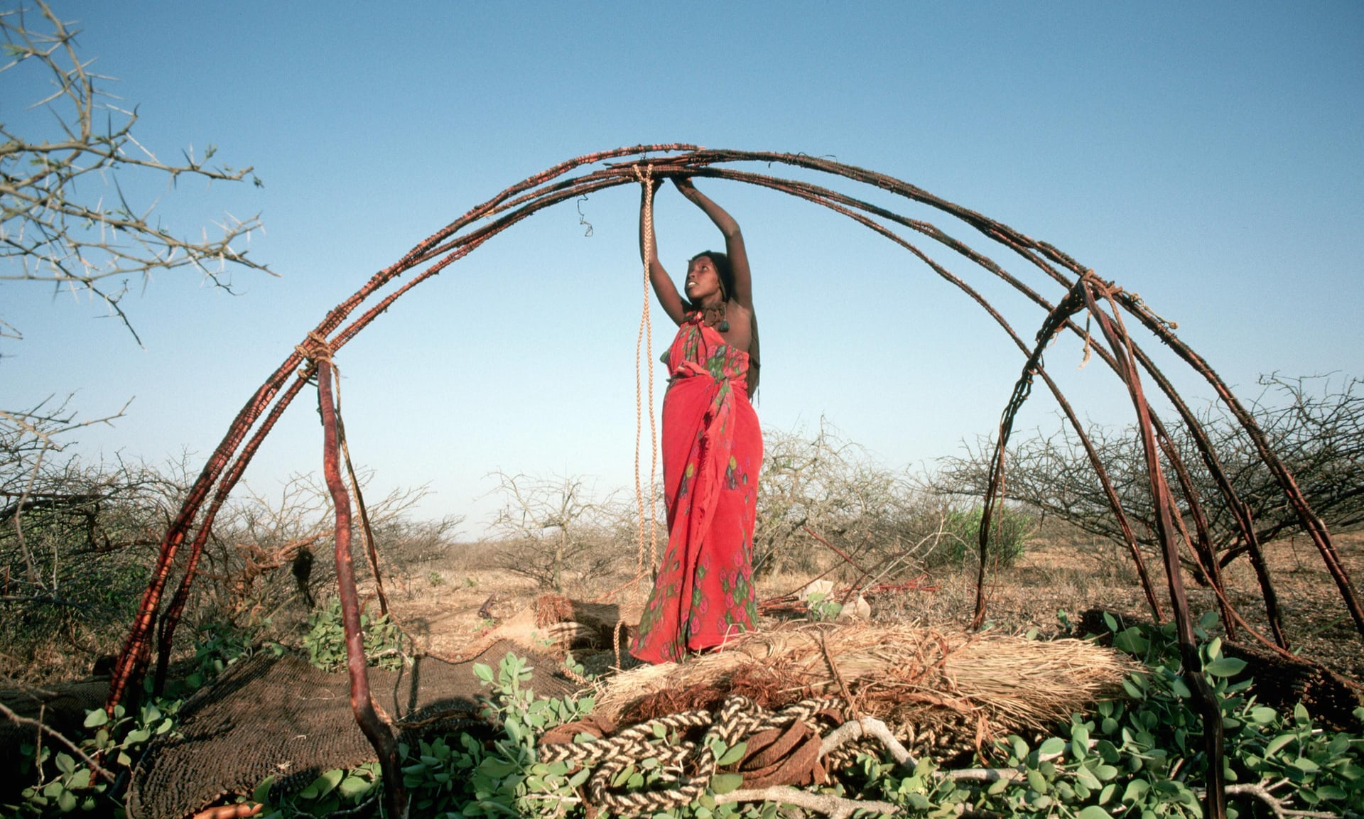 Much of Somalia was historically a nomadic society. Daily life centered around herding camels, building a homestead, and raising children in tight family groups. Nomadic Somalis lived in homes like this one. The nomadic homes are precisely designed so that families can dismantle the structure, pack it on to the backs of their camels, and re-build it in a new home. In Somali language, this home is called an Aqal. Soomaaliga: Somalidu waa dad xoolo dhaqato aha, noloshooduna ay ku xidhnayd dhaqashada xoolaha nool, deganaashaha guri iyo barbaarinta ubadka iyo qoyaska oo aad isugu xidhan. Somalidi hore ee xoolo dhaqatada ahaa waxay ku noolayeen oo hoy u aha aqal somali sida kan oo kale ah. Aqal somaliga waxa loo dhisan jiray si uu ula jaanqado xaaladaha iyo geediga ay yihiin.